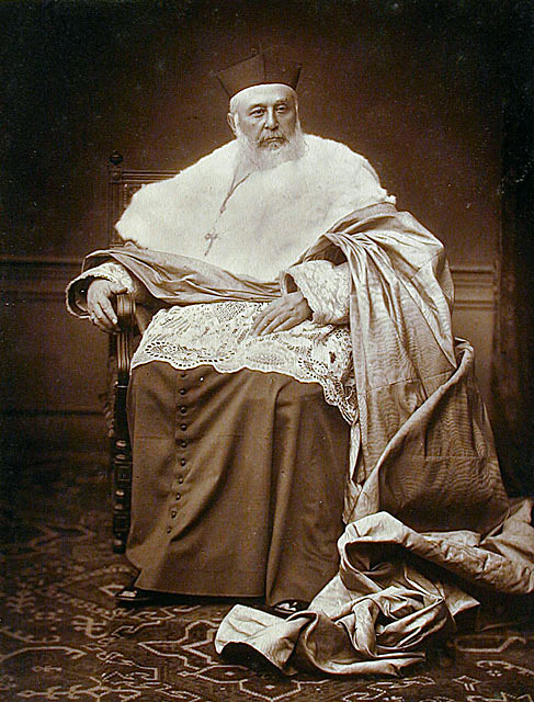 Cardinal Charles Martial Lavigerie (1825-1892)